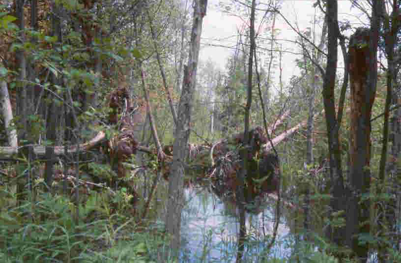 Dead Stream Swamp — Au Sable State Forest, Wexford County, eastern Michigan. An exceptionally large example of a northern white cedar swamp (Thuja occidentalis), considered to be the climax in bog forest development. Located 30 miles northeast of Cadillac, Wexford County.